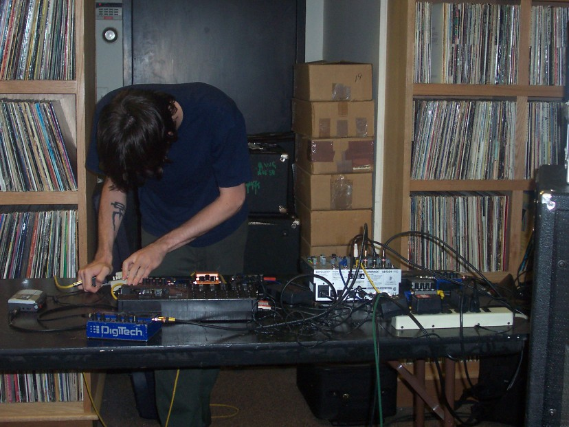 Pedestrian Deposit playing at RRRecords; taken by me.